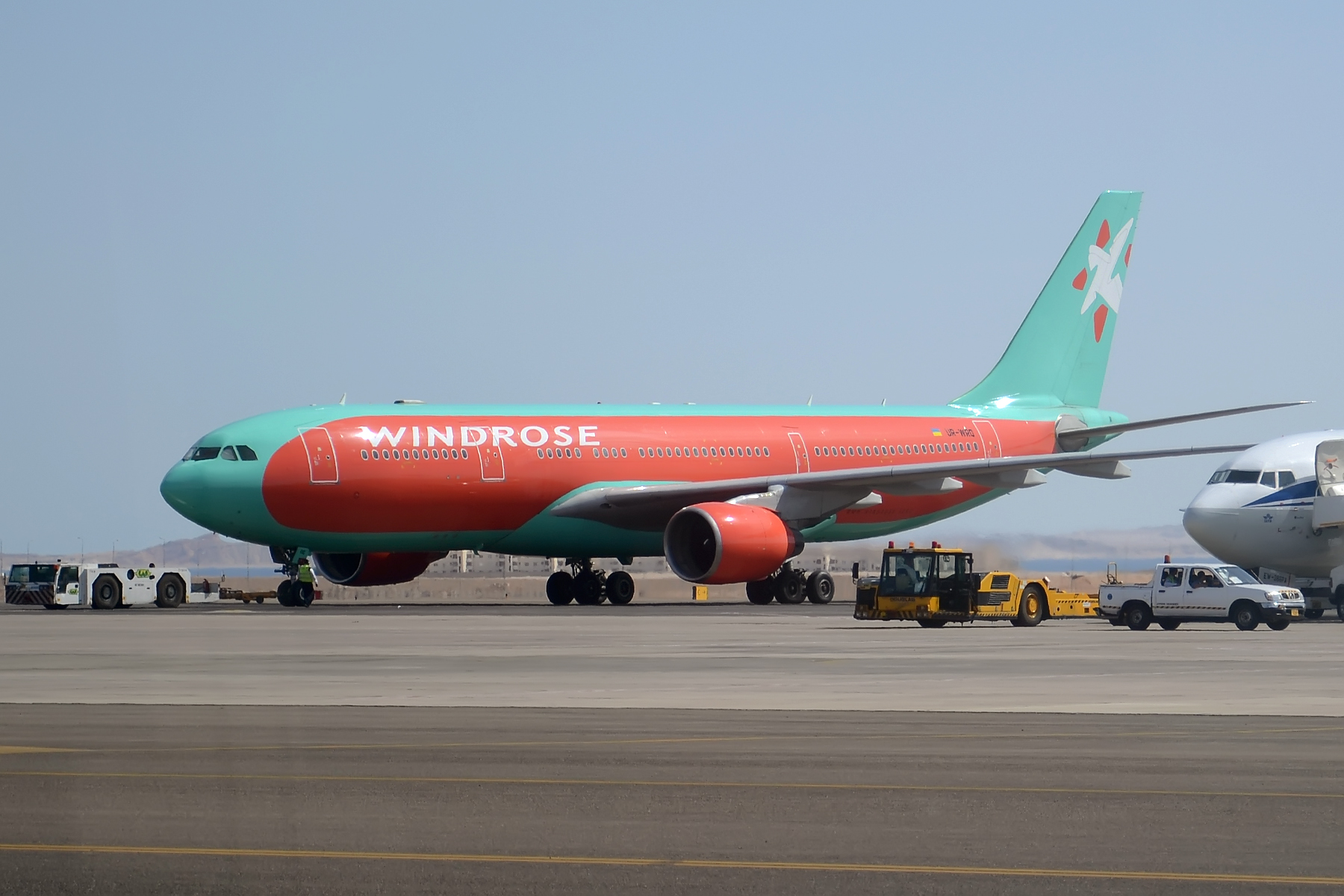 Sharm el Sheikh (Ophira) - International (Ras Nasrani) (SSH / HESH)